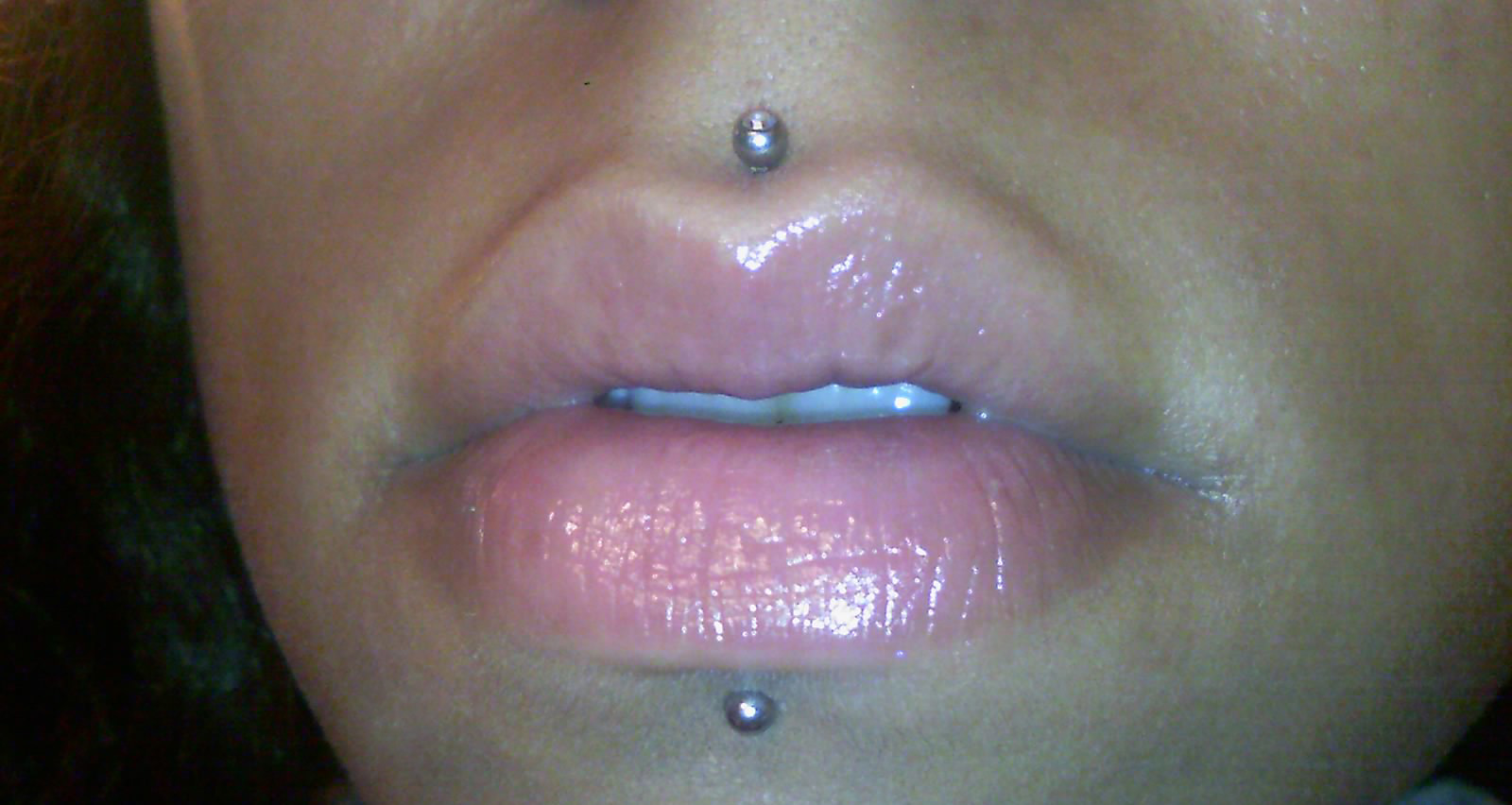 Cyberbites (Combination of Medusa Piercing and central Labret Piercing)